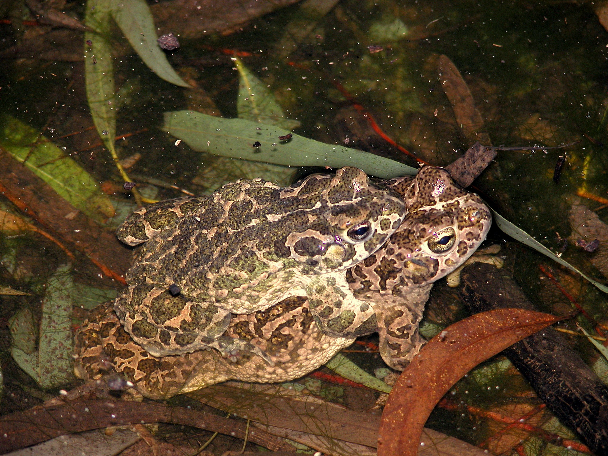 Sicilian green toad (Bufo siculus)